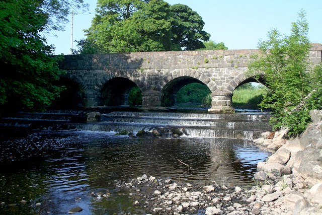 Glenone bridge over the Clady River On this bridge the A54 Portglenone to Kilrea road crosses the Clady River, a significant tributary of the nearby River Bann.